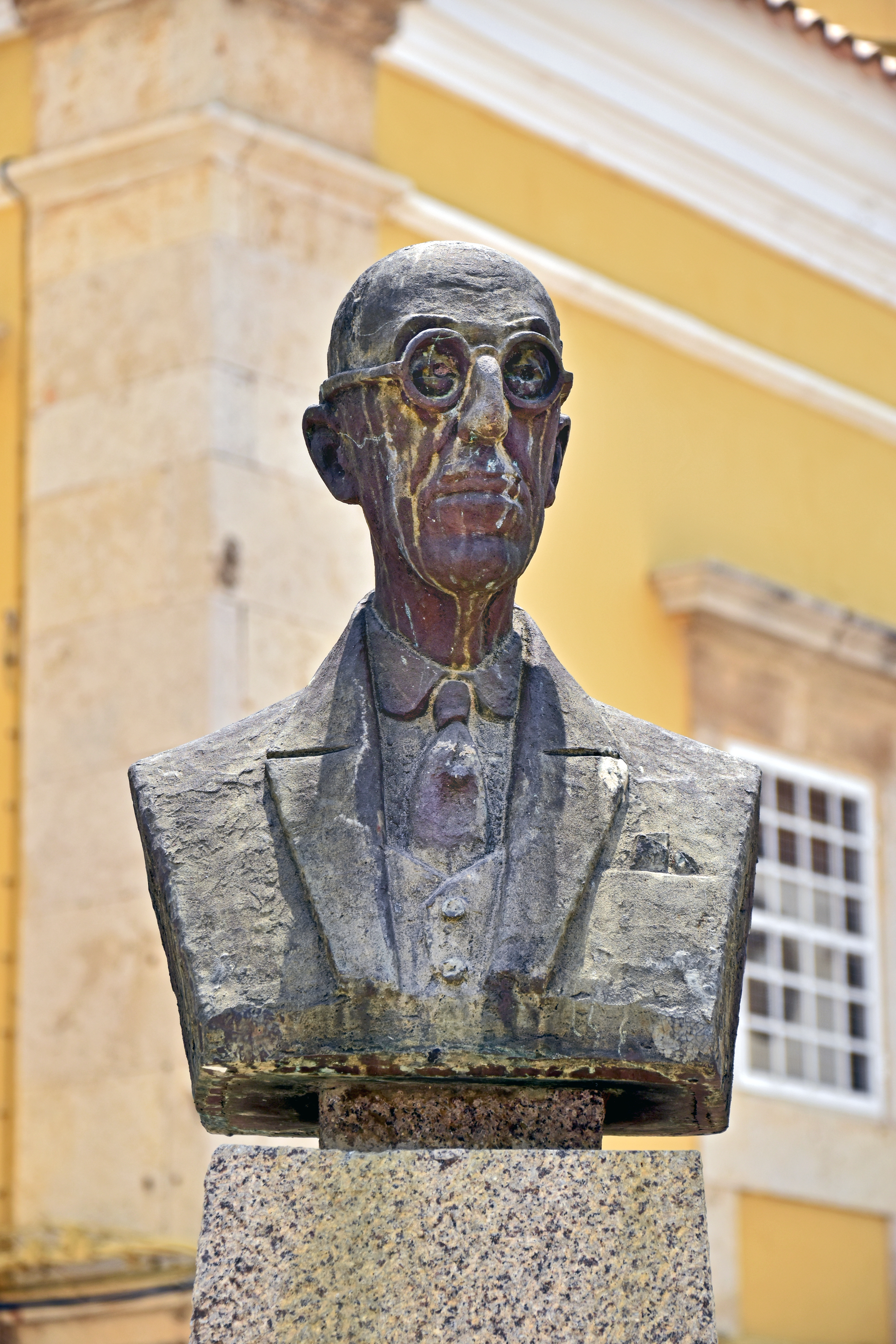 Detail of the monument dedicated to Dr. João Da Silva Nobre by the city of Faro. The bronze bust was made by the sculptor Sidónio de Almeida.